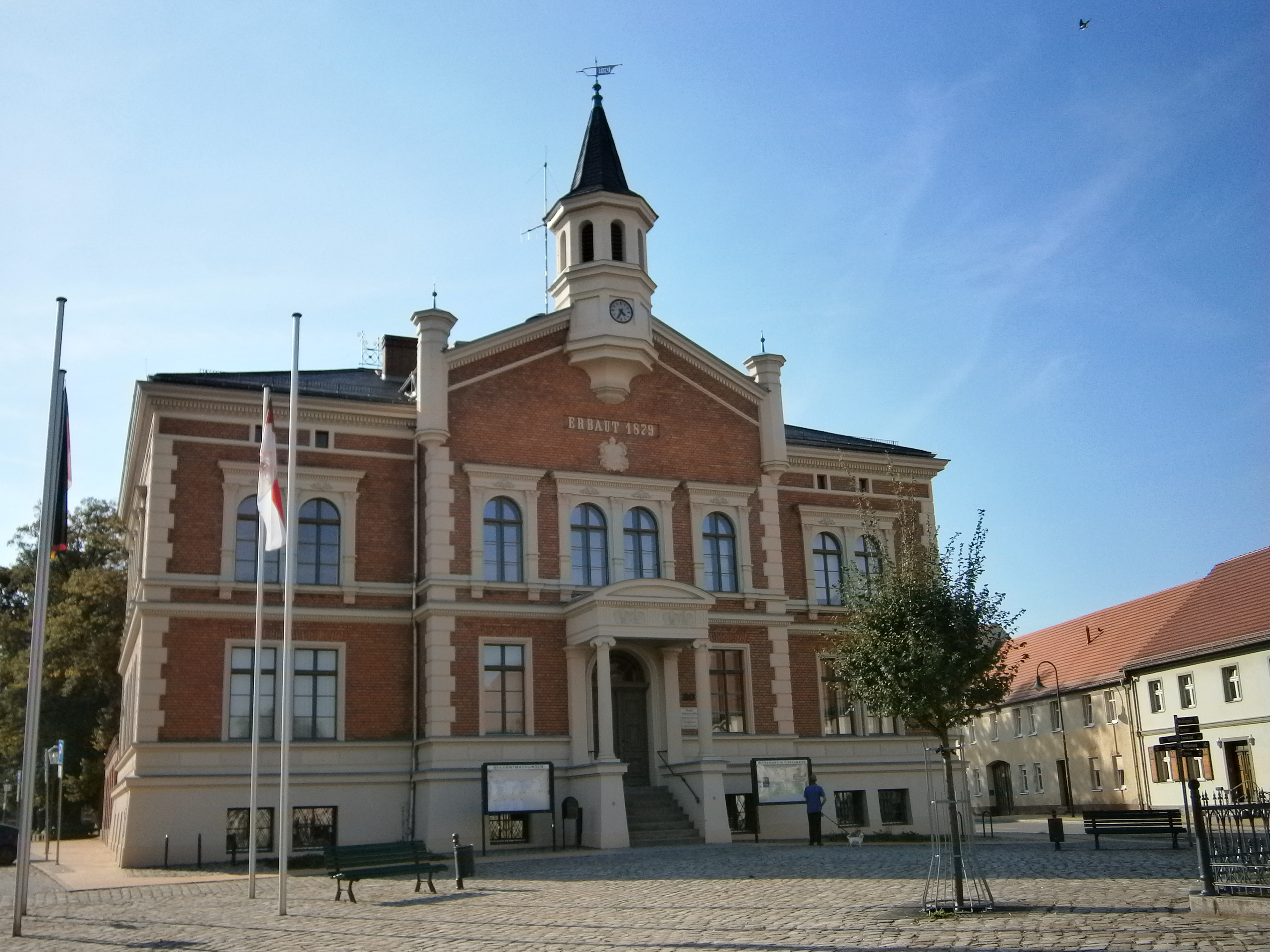 Liebenwalde, Brandenburg, Germany, Cityhall